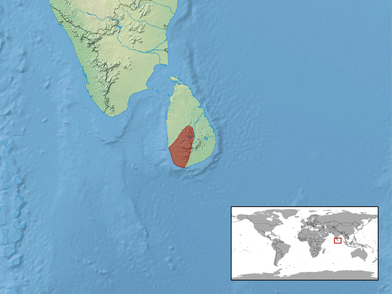 geographic distribution of Lyriocephalus scutatus (Native: Sri Lanka)